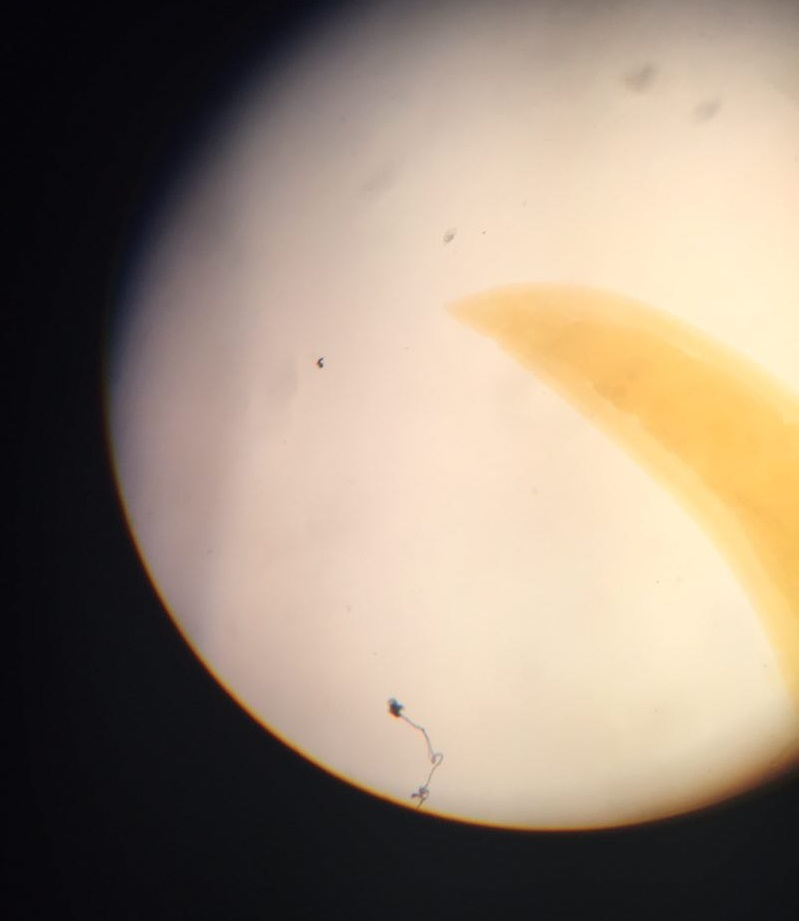 دم نکاتور ماده